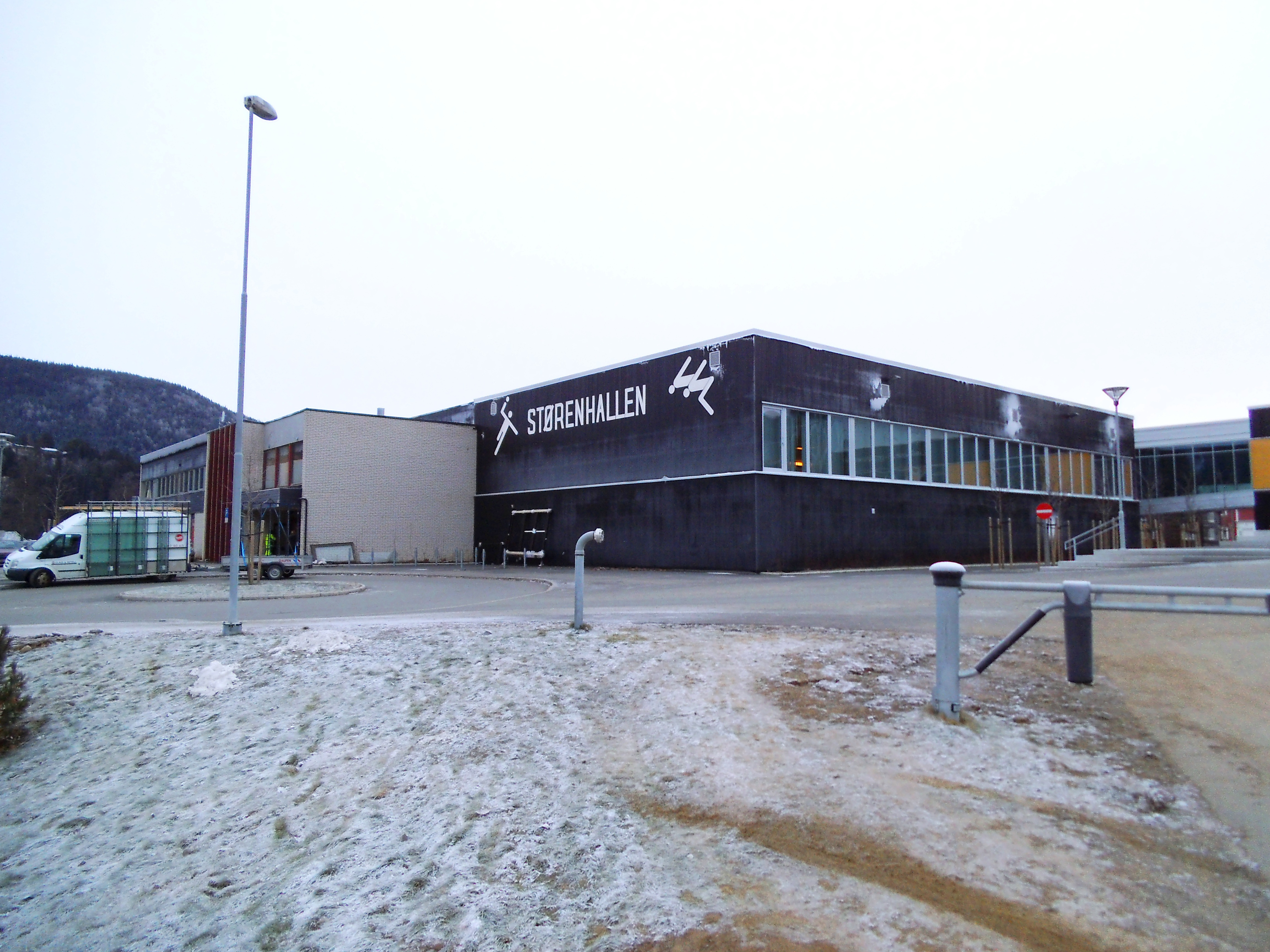 Størenhallen, an indoor sports arena in Støren, Norway. Built in 1974.